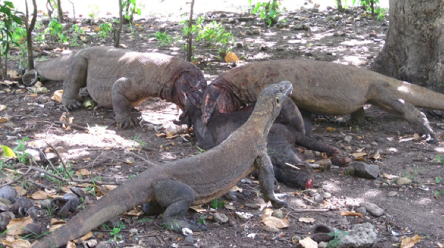 Three komodo dragons feed on Sus scrofa